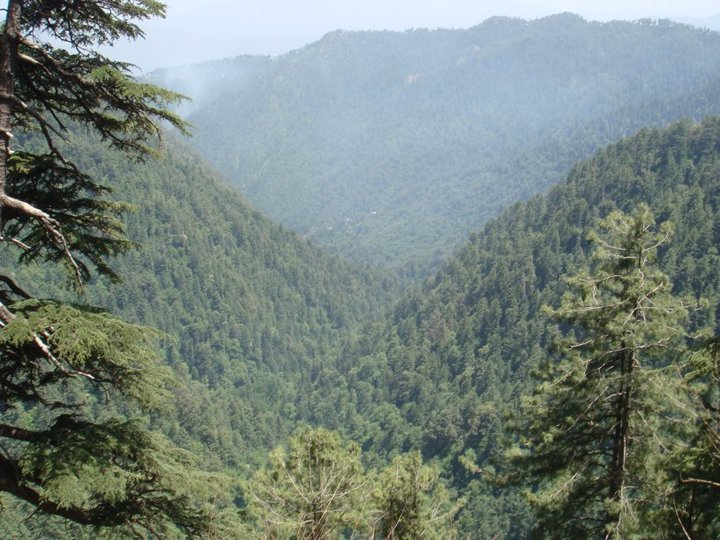 Hill tracts and forest near Abbottabad, Hazara, NWFP, photo 2009